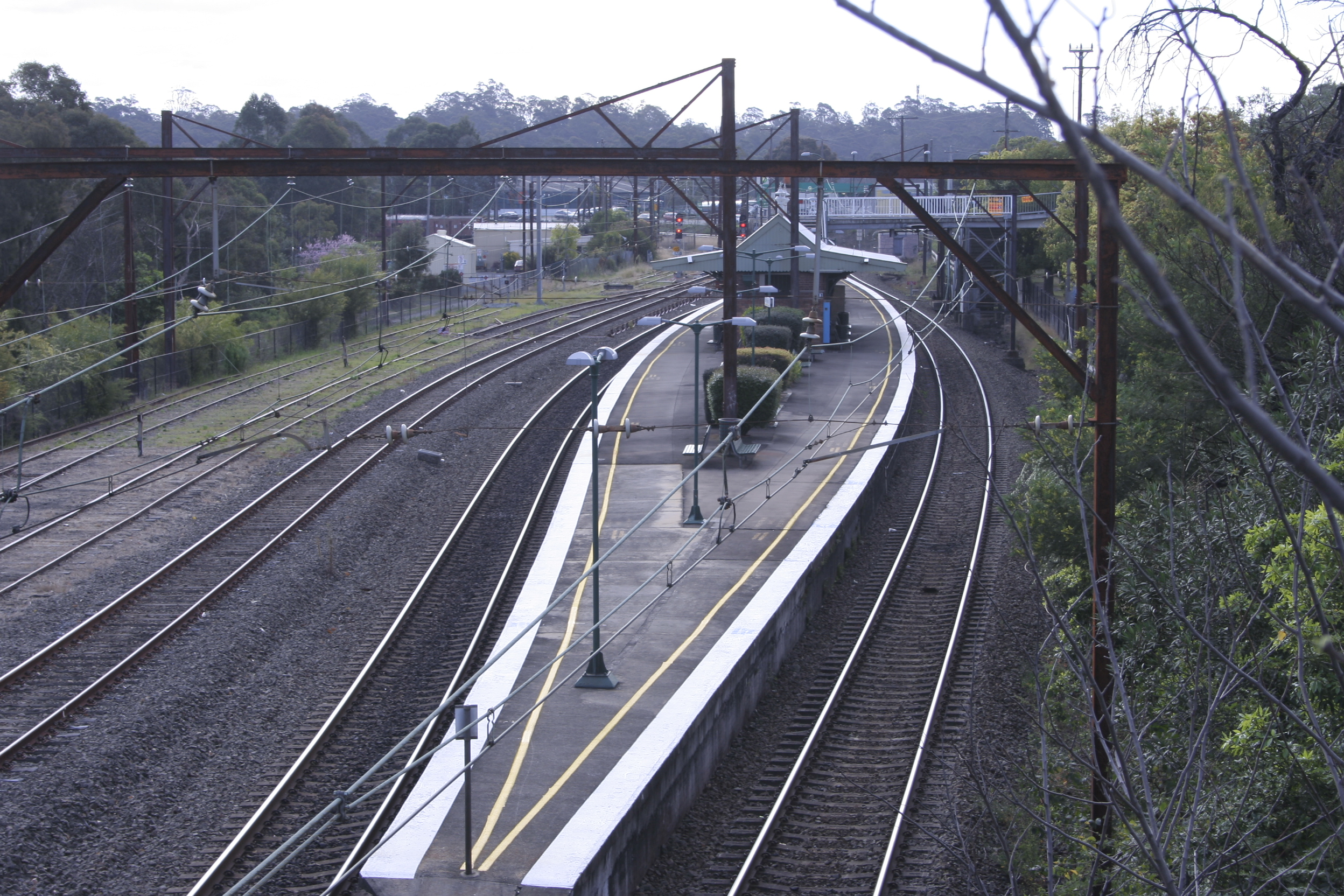 Valley Heights railway station